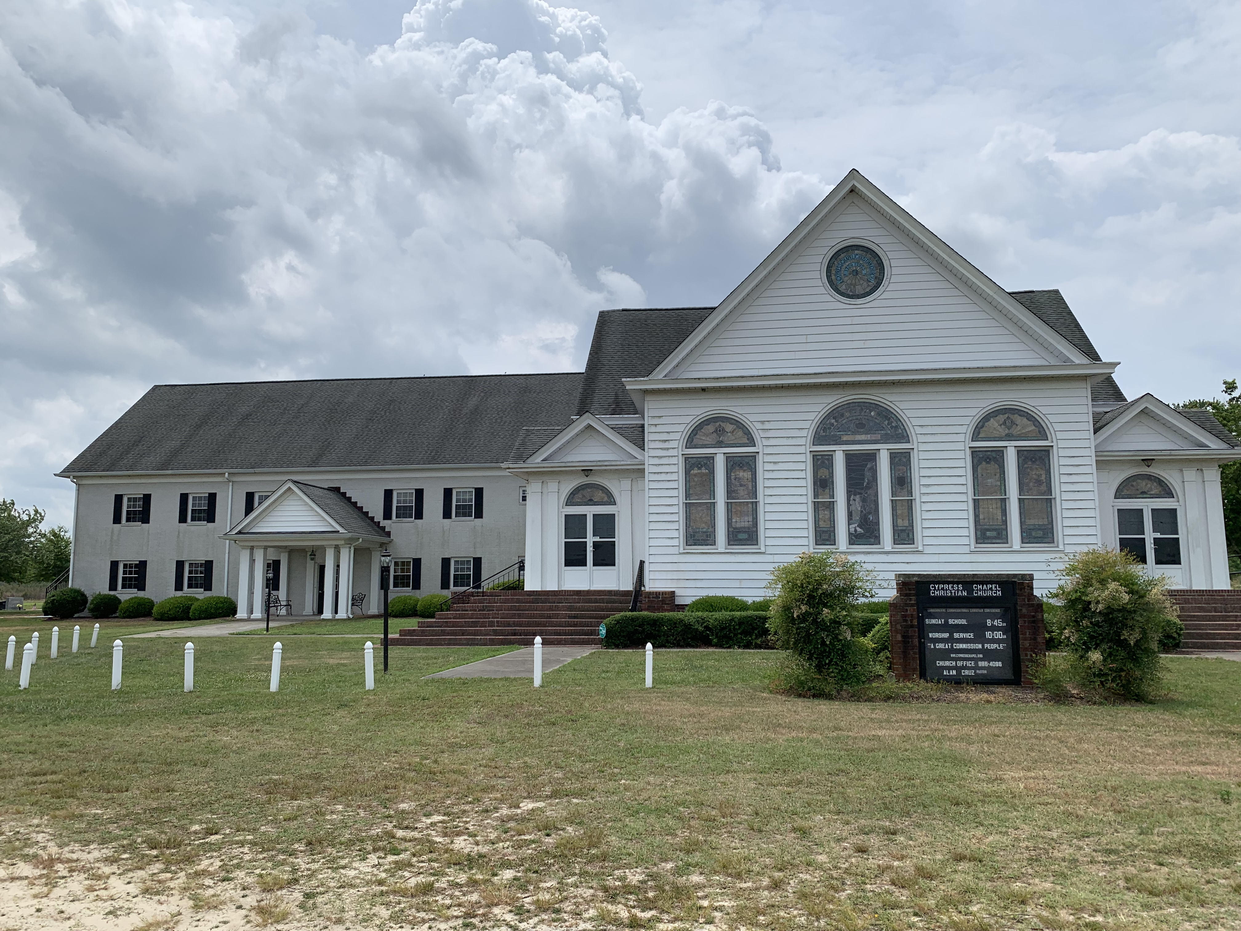 Front of the Cypress Chapel Christian Church in Suffolk, Virginia